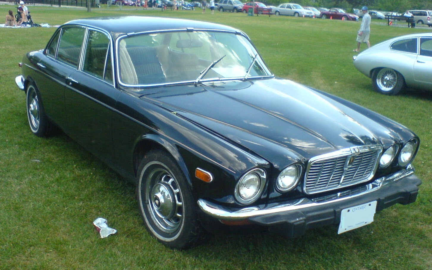 Jaguar XJ photographed in Ottawa, Ontario, Canada at the 2010 Ottawa British Auto Show.